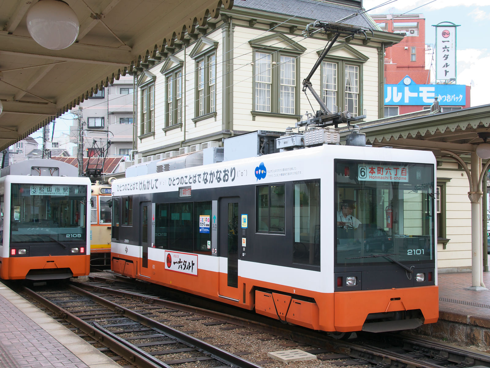 Iyo-tetsudo type Moha-2100 (2101) in Dogo-Onsen station.